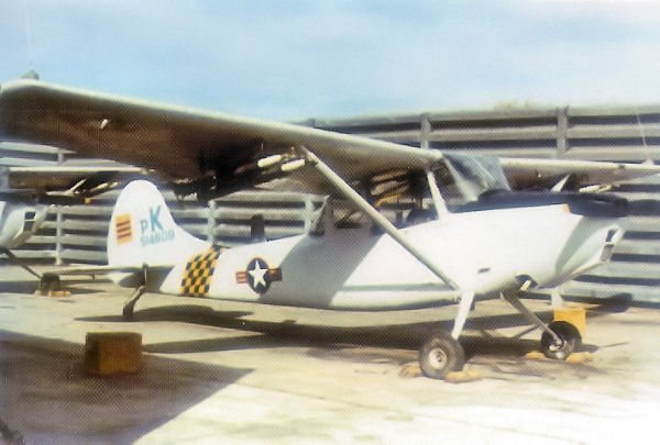 A Cessna O-1A observation aircraft of the 112th Liaison Squadron, 23rd Tactical Wing, of the South Vietnamese Air Force at Bien Hoa Air Base, 1971.